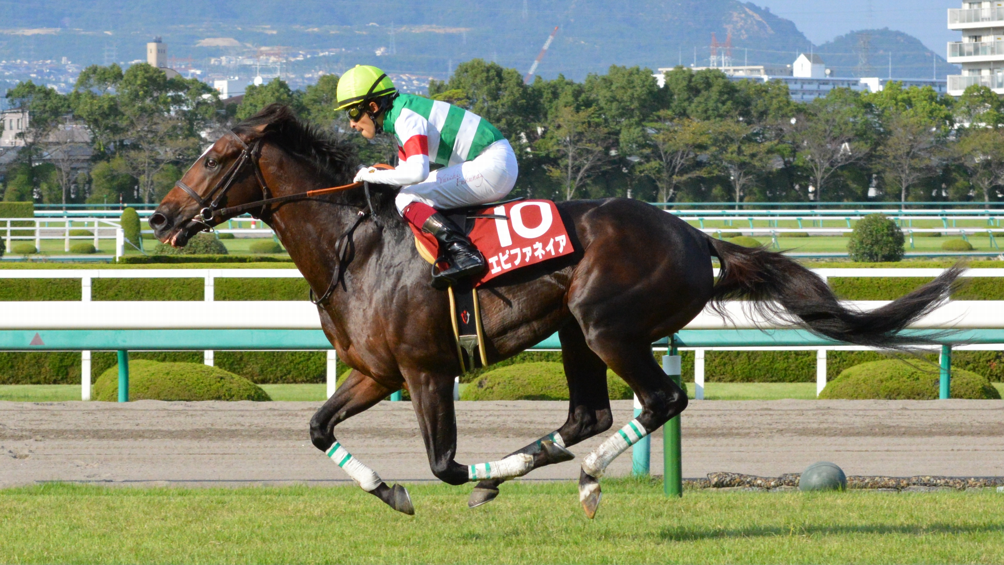 Japanese race horse Epiphaneia at Hanshin racecourse. Hanshin (JPN) 22 Sep 2013Kobe Shimbun Hai (Grade 2) (Colts & Fillies) (Turf) (3yo) 1m4f Firm RankHorse NameOddsAgeWgtTrainerJockey1stEpiphaneia (JPN)2/5FC38-11Katsuhiko SumiiYuichi Fukunaga2ndMajesty Hearts (JPN)33/1C38-11Masahiro MatsunagaKazuma MoriOthers are omitted. (18 horses entered in a race.)